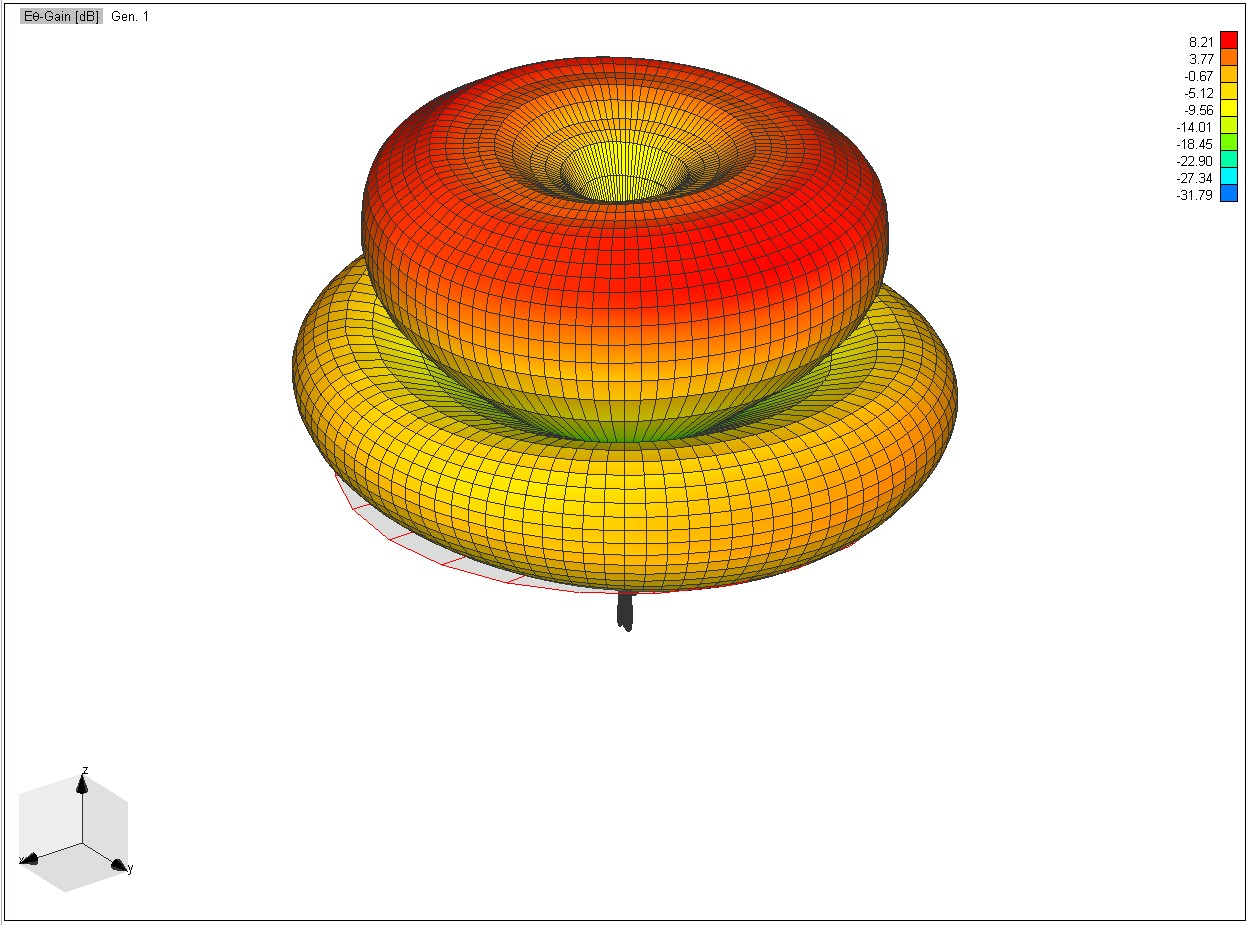 Vertical Polarization of Dual Band Blade at L1, 3D